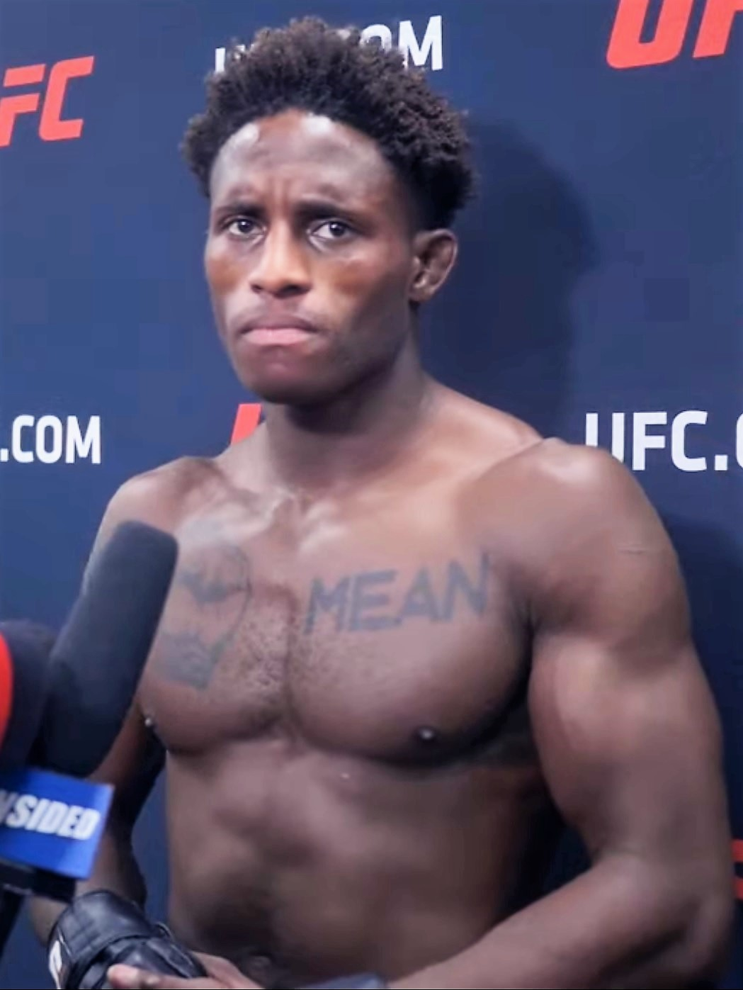 Hakeem Dawodu wants top 10 opponent after 4th UFC win | UFC 244 Canadian featherweight Hakeem Dawodu delivered a strong performance, winning a decision over Julio Arce at UFC 244. Afterwards he spoke with the MMA media, saying that he wasn't pleased with his performance, and revealing when he wants to return. Visit Europe's biggest MMA website Follow us on our Social Media channels: Facebook: Instagram: Twitter